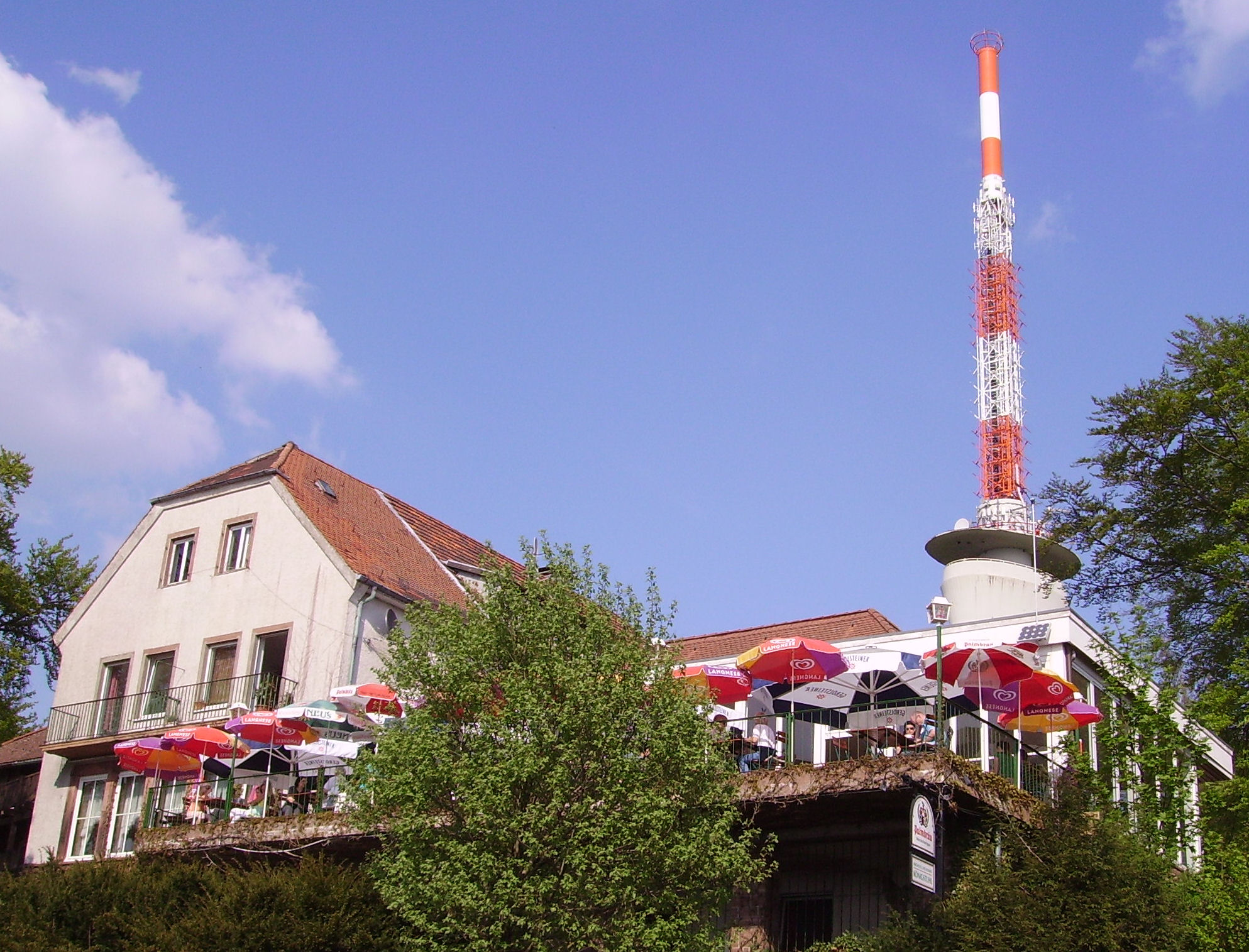 on top of Königstuhl (mountain) in Heidelberg, Germany